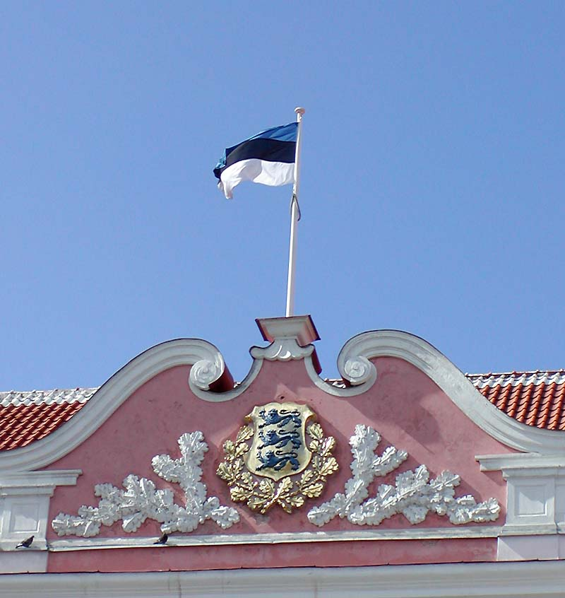 Photo of Estonian flag flying over the parliament, Tallinn